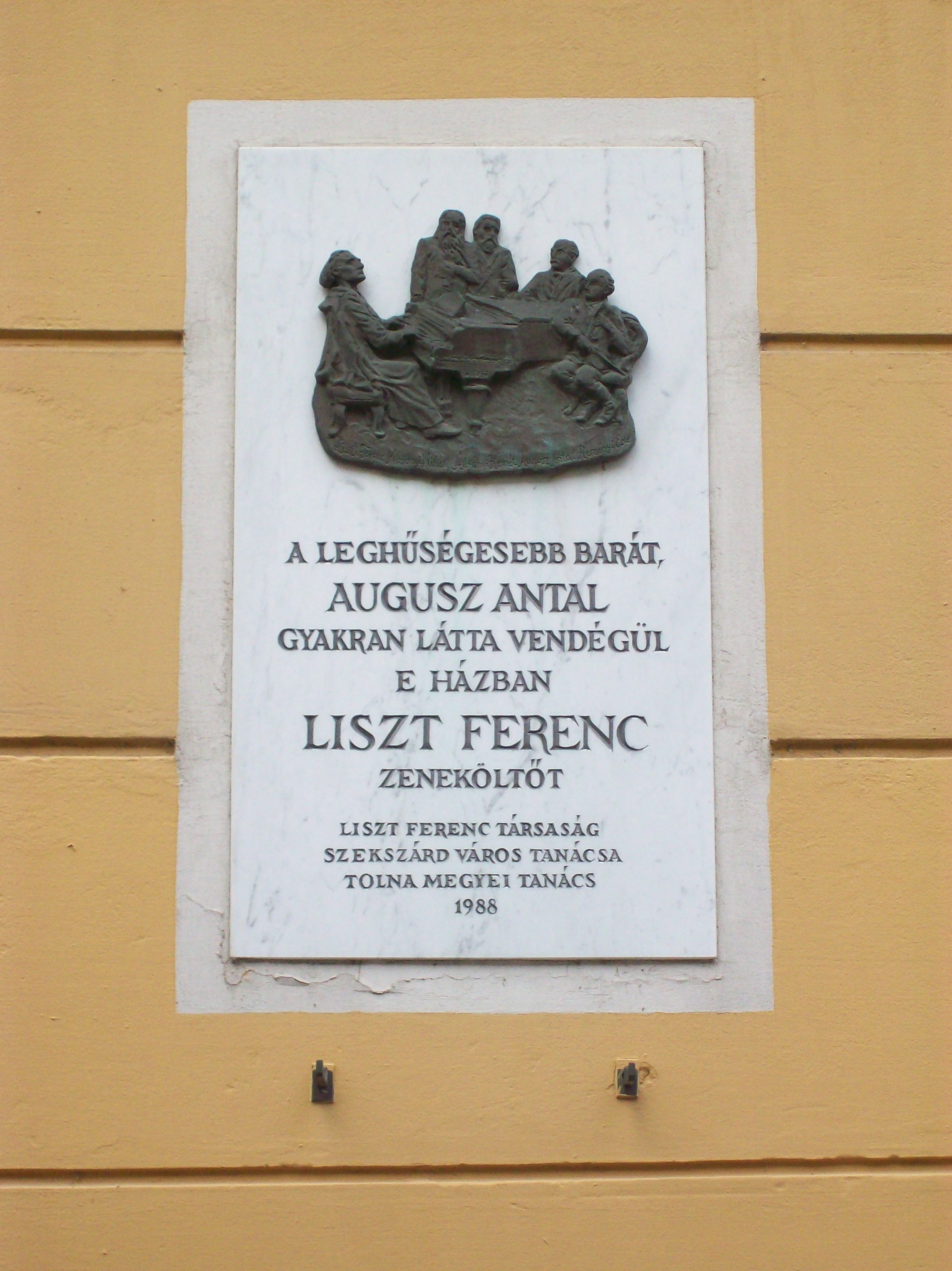 Commemorative plaque of Antal Augusz and Ferenc Liszt in Budapest District I, Úri Street No 43